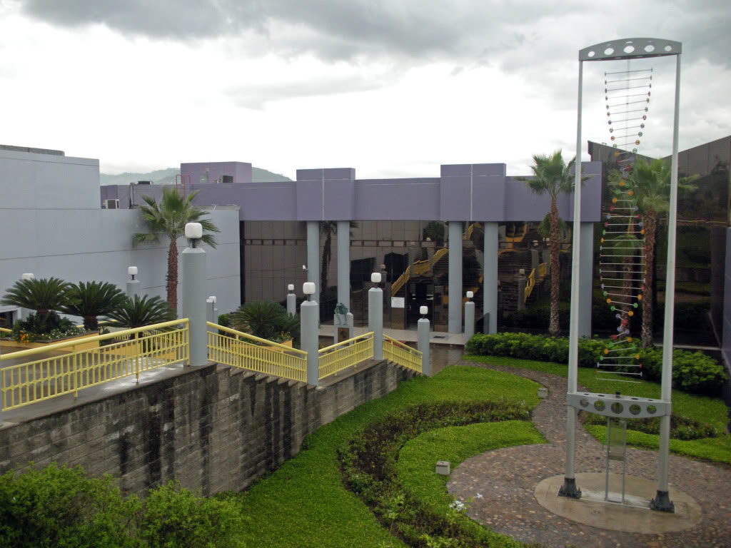 Interactive Learning Center Chiminike Children's Museum in the Goverment Civic Center at the intersection of Armed Forces Blvd and Kuwait Blvd in Tegucigalpa, M.D.C., Honduras.